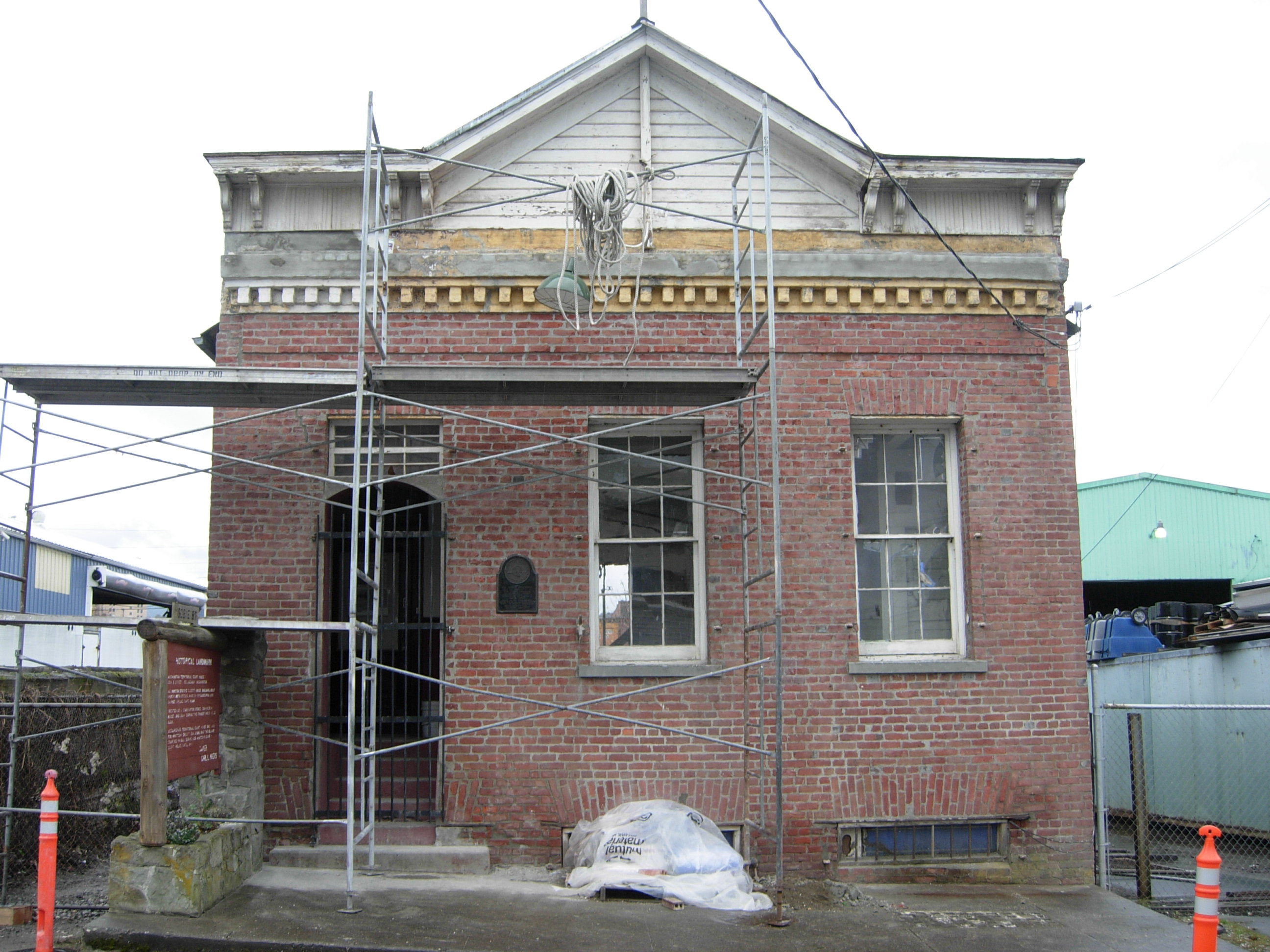 The T.G. Richards and Co. Store, and Washington Territorial Courthouse, the oldest brick building in Washington. Bellingham, Whatcom County, Washington.